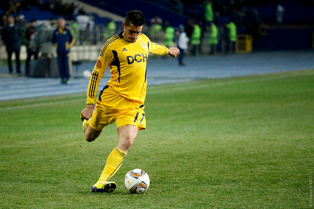 FC Metalist Kharkiv 4-1 FK Austria Wien José Ernesto Sosa scored one and set up two as the Ukrainian side sealed their place in the last 32, though Austria Wien could yet join them.